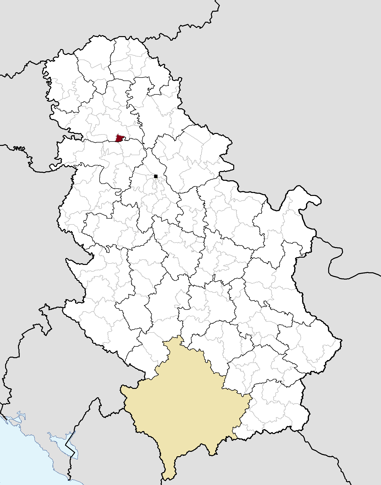 Municipal location in Serbia